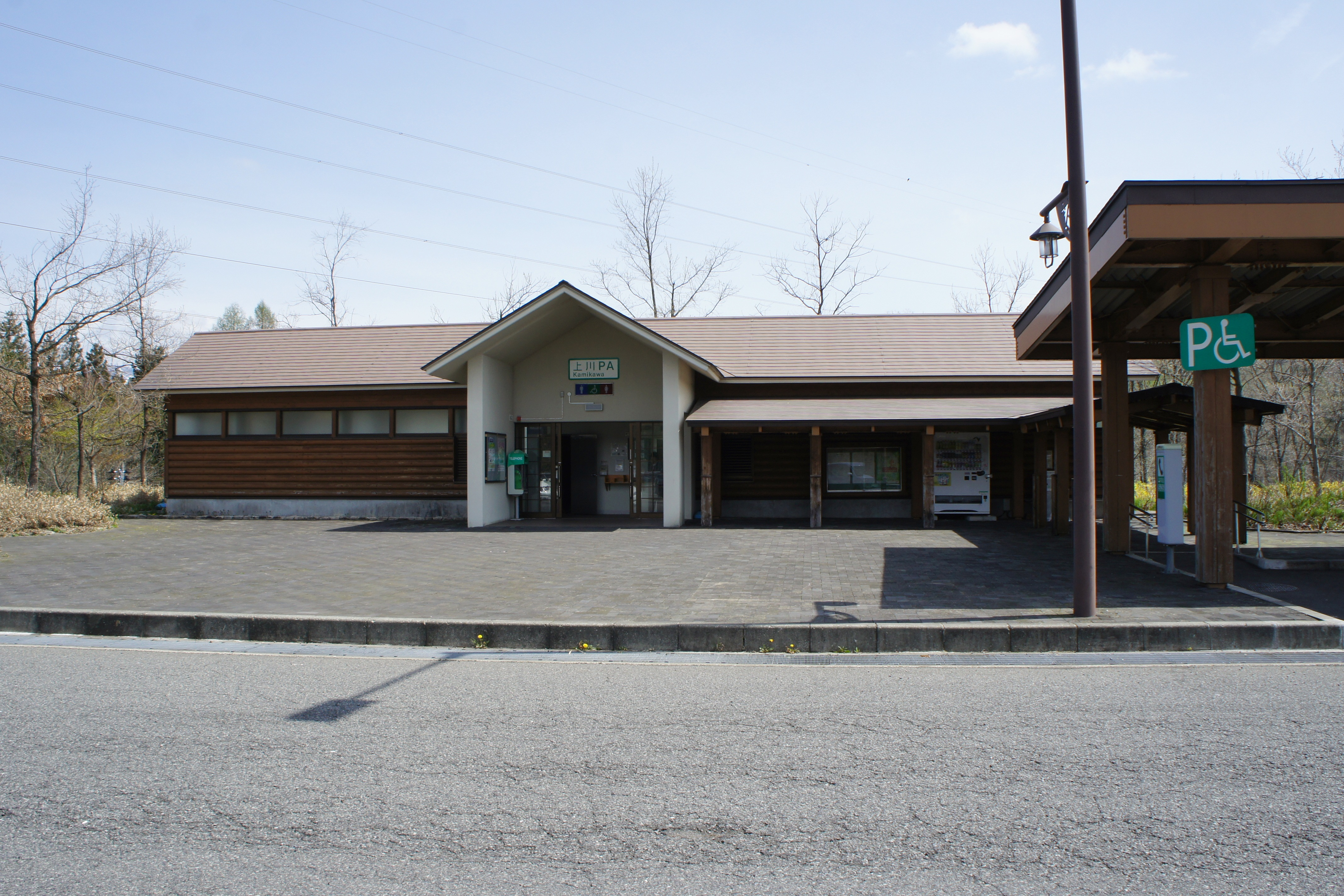 Kamikawa Parking Area, Aga-machi, Niigata, Japan